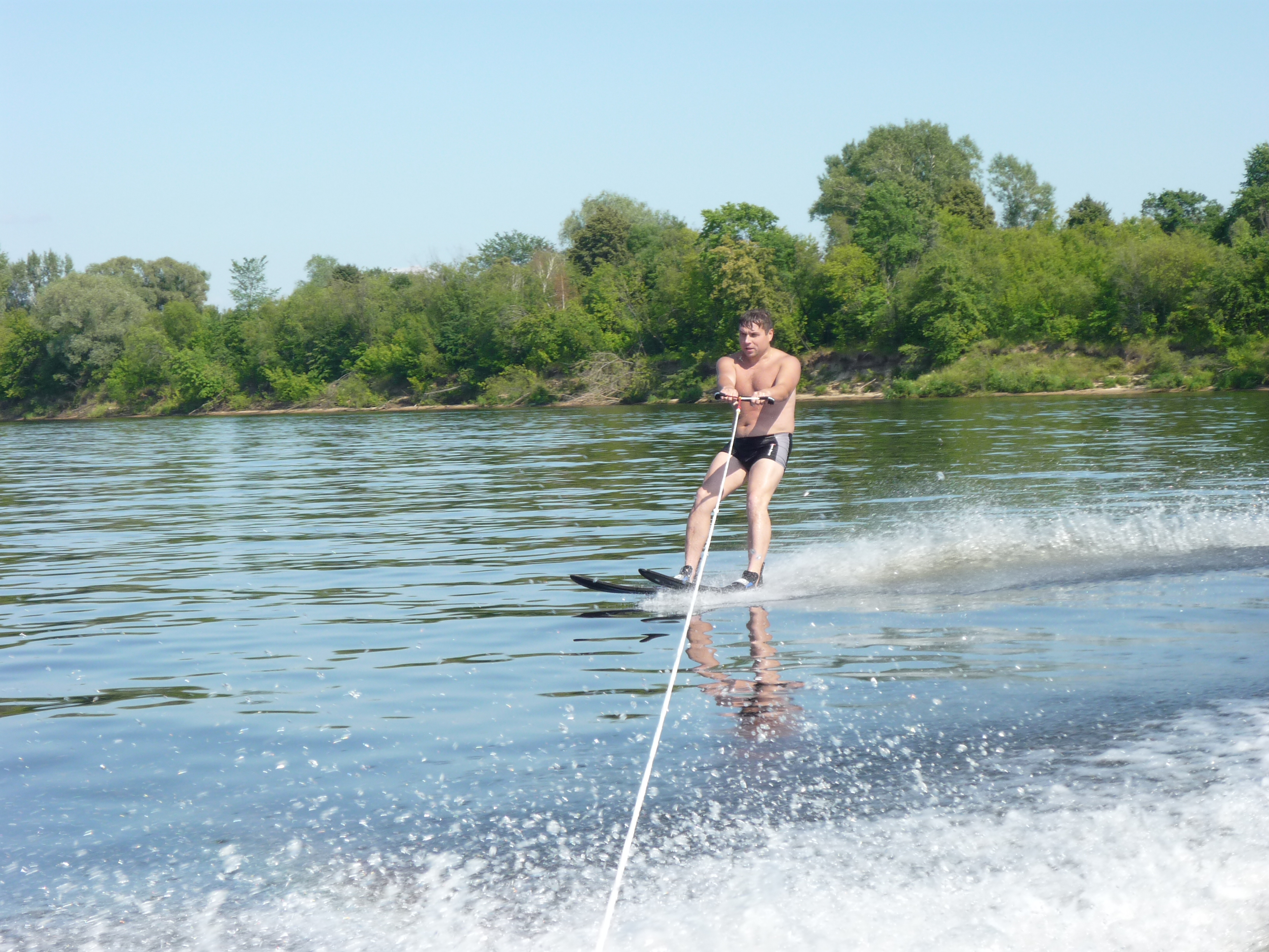 катание на Волге